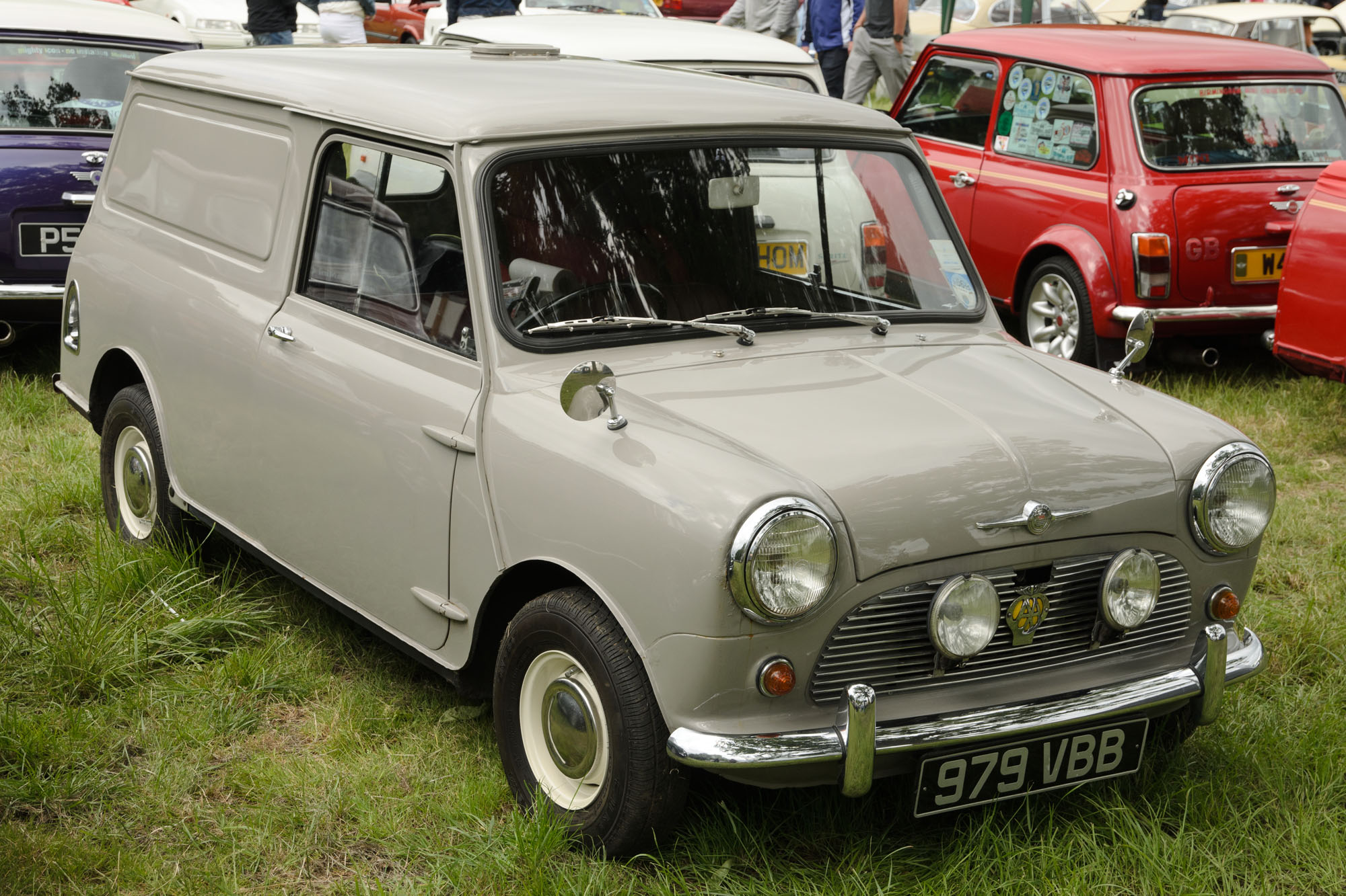 Trentham Gardens Classic Car Show 21/06/2015 reg 979 VBB